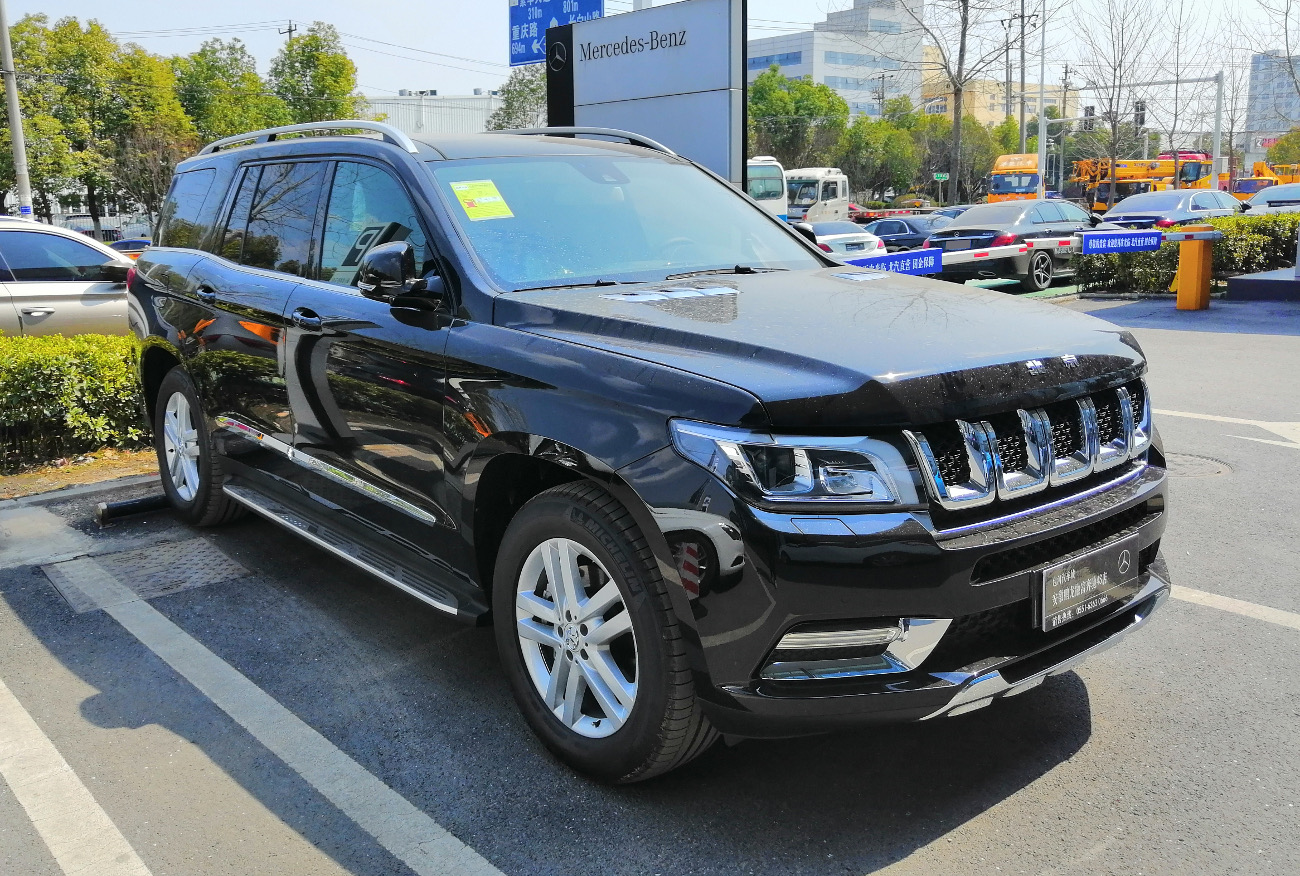 Beijing BJ90 photographed in Hefei, Anhui province, China.